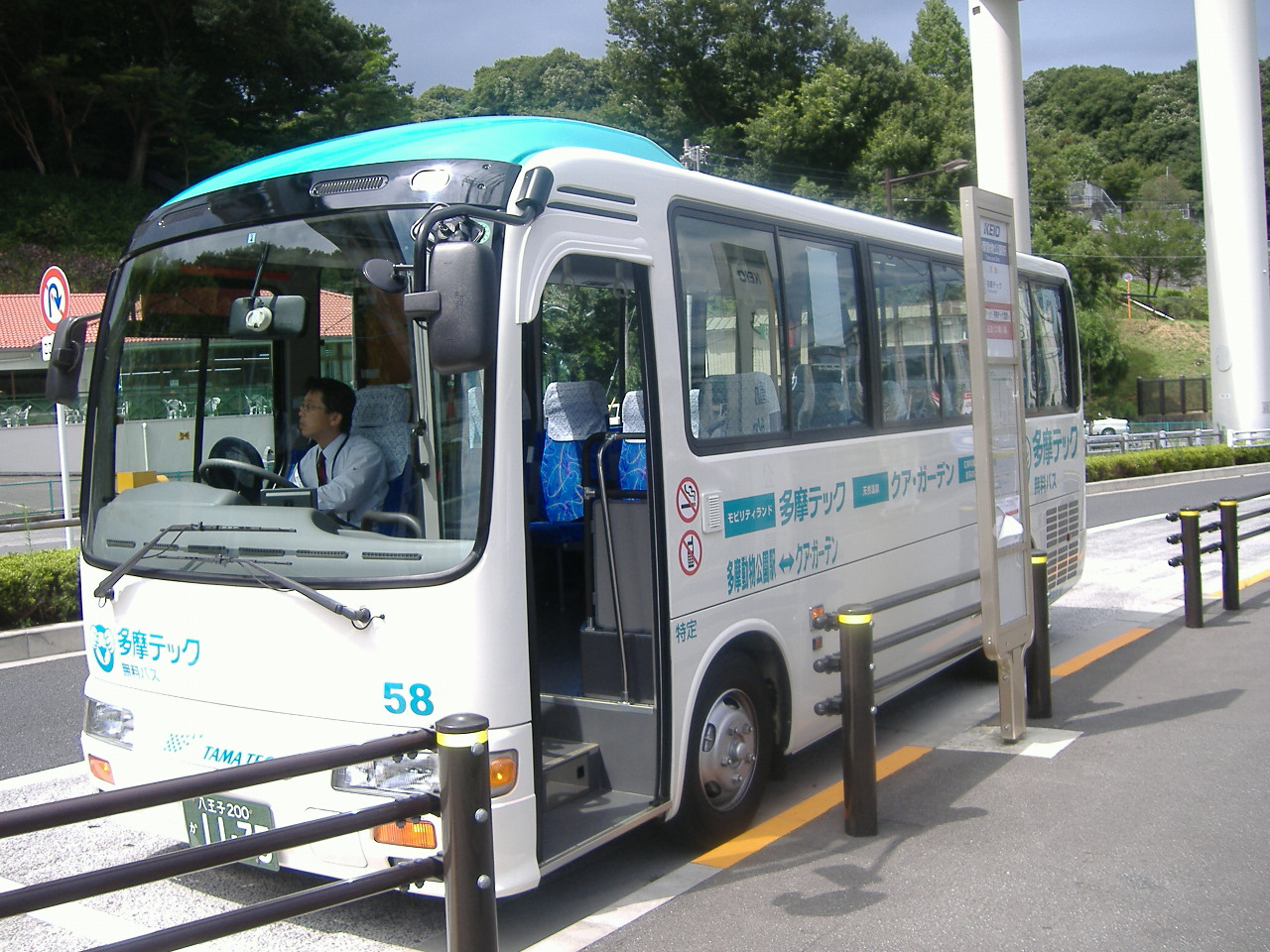 Tama-tech,Free bus